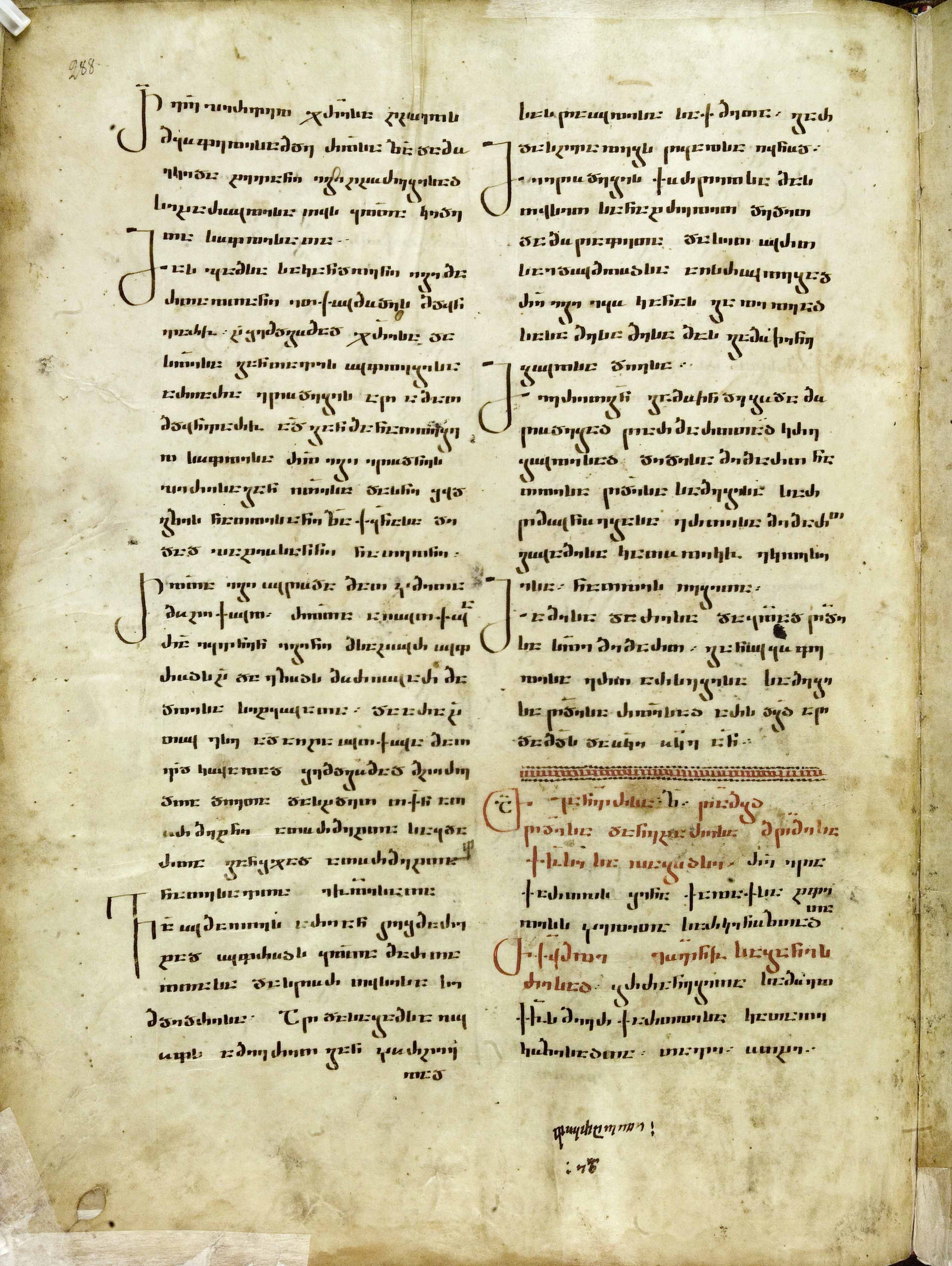 A folio from the 10th-century Georgian homiliary (polykephalon) from Parkhali monastery, containing the earliest extant copy of the Martyrdom of St. Abo of Tbilisi". (Georgian National Center of Manuscripts, MSS A-95)